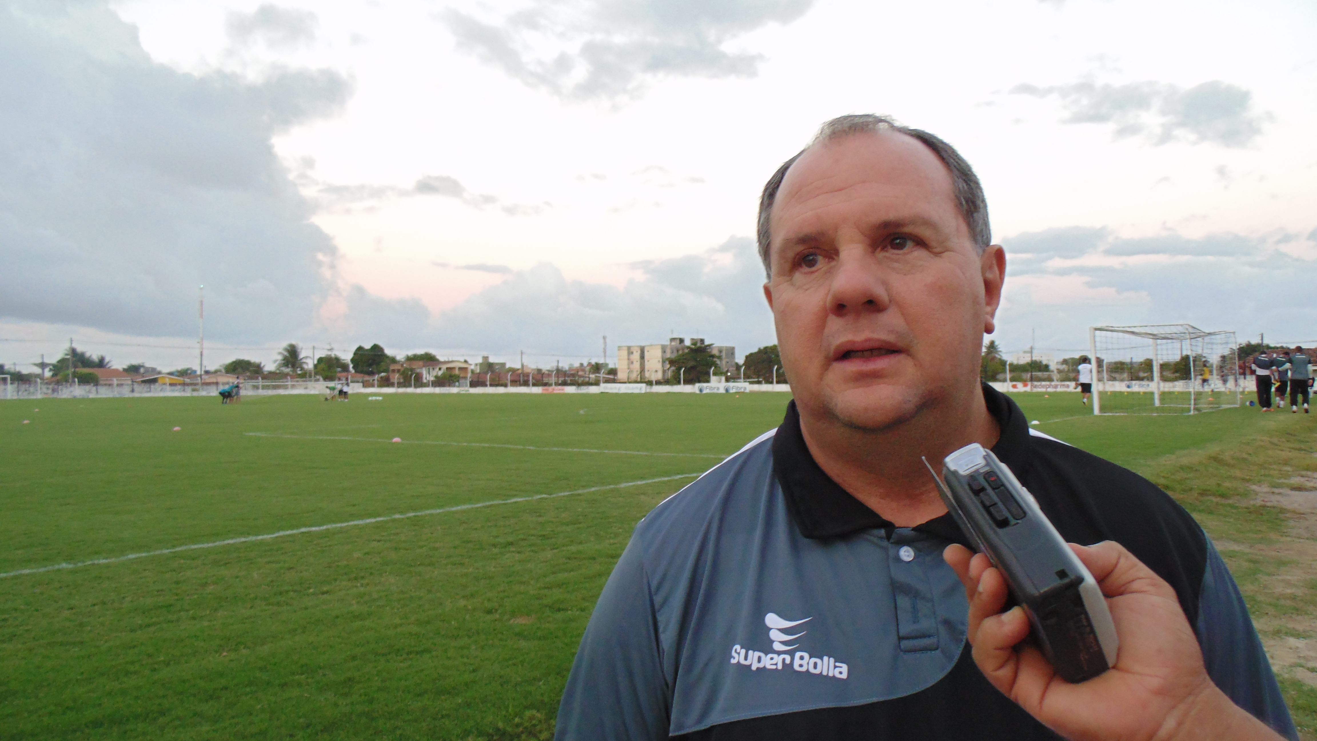 Técnico Marcelo Vilar, do Botafogo-PB, em 2014